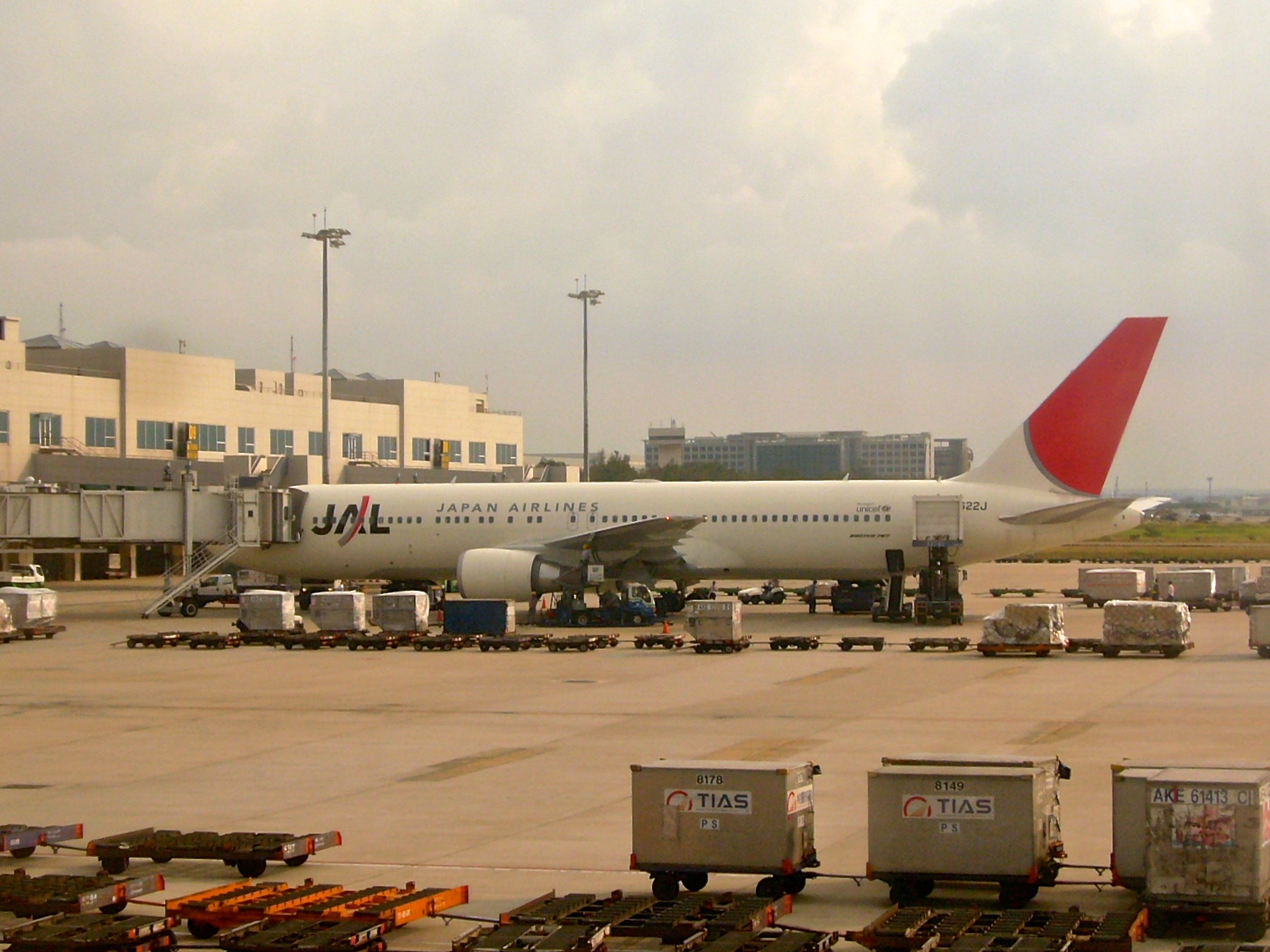 JAL Boeing 767-300